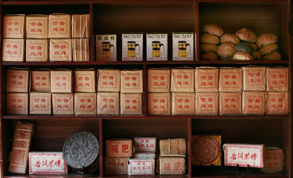 China: Tea shop